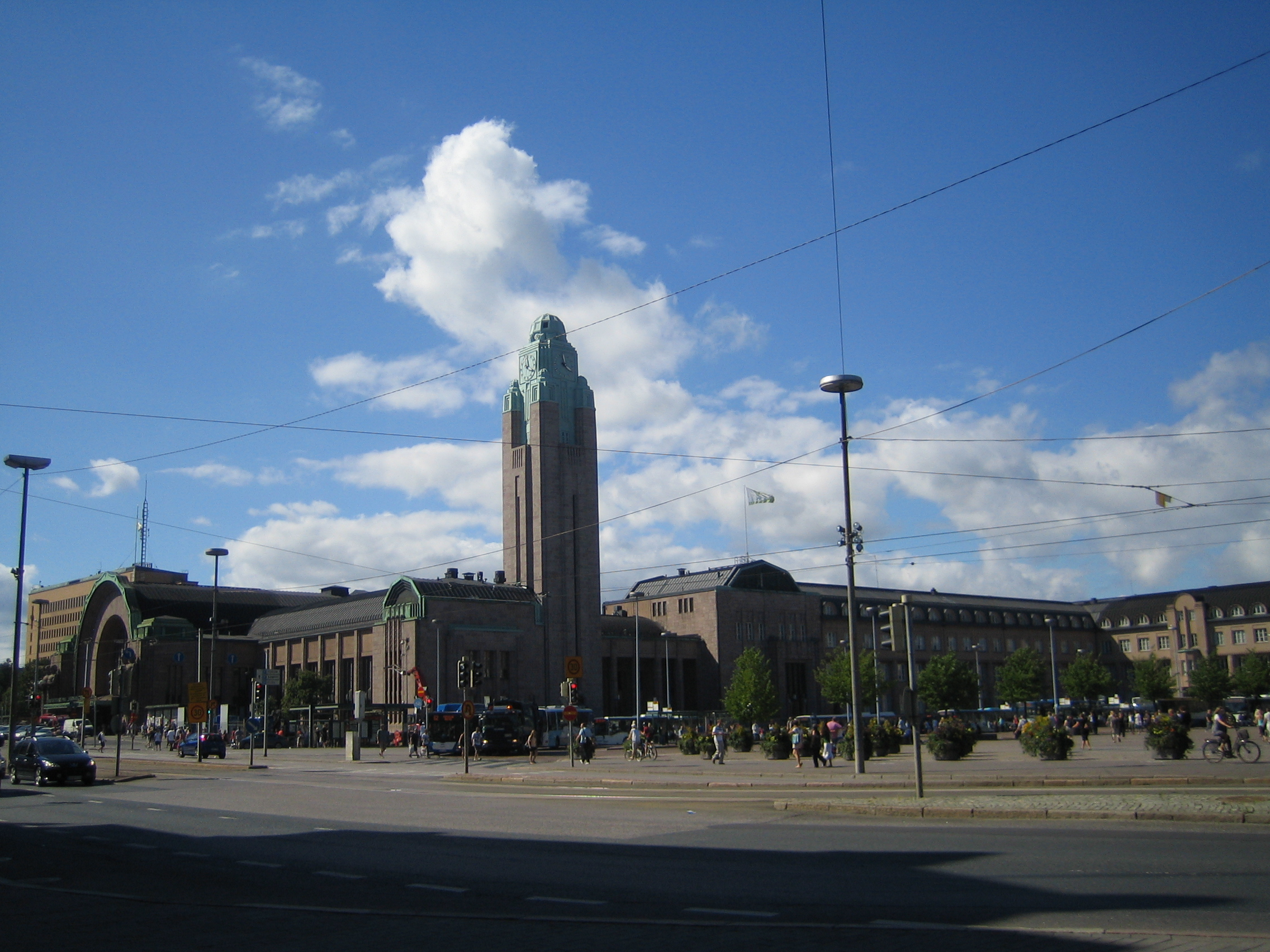 Helsinki Central railway station, Helsinki, Finland (Eliel Saarinen)